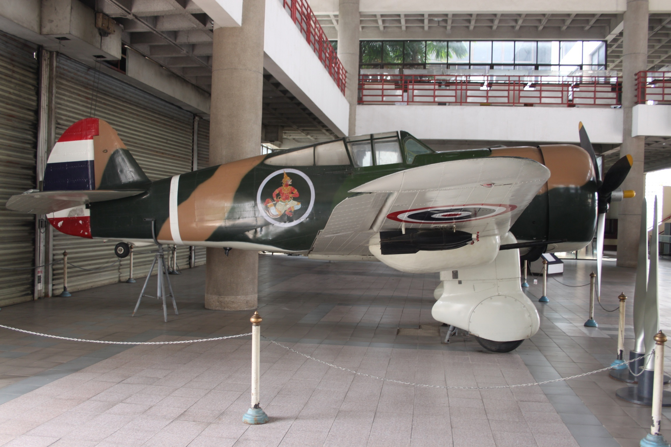 At Don Mueang International Airport